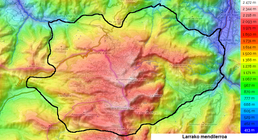 Topographic map showing the Larra-Belagua Range.